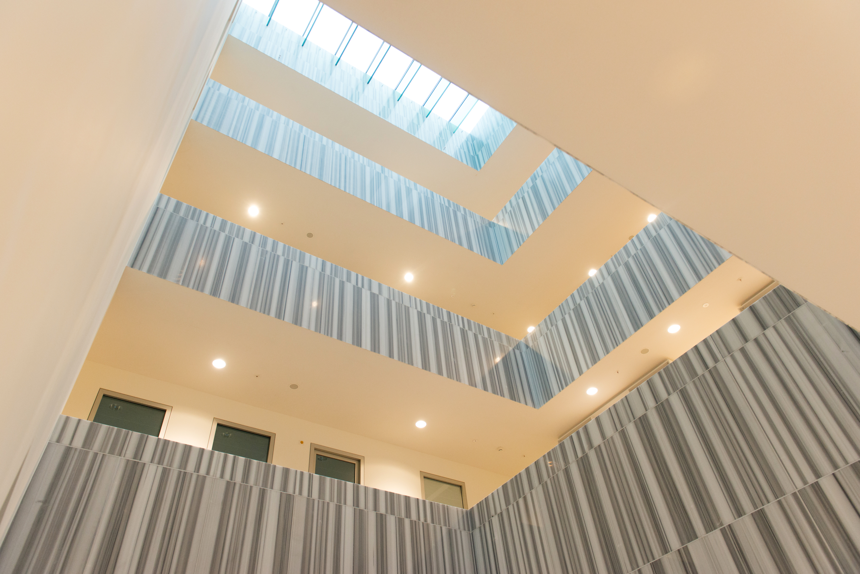 Supreme Court of the Netherlands in The Hague. The oficial opening if the new building is on 1 March 2016. It's design is by Kaan Architects.